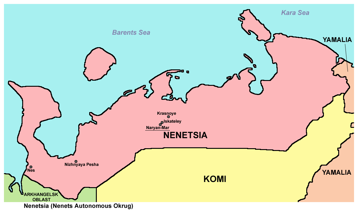 Map of Nenetsia.